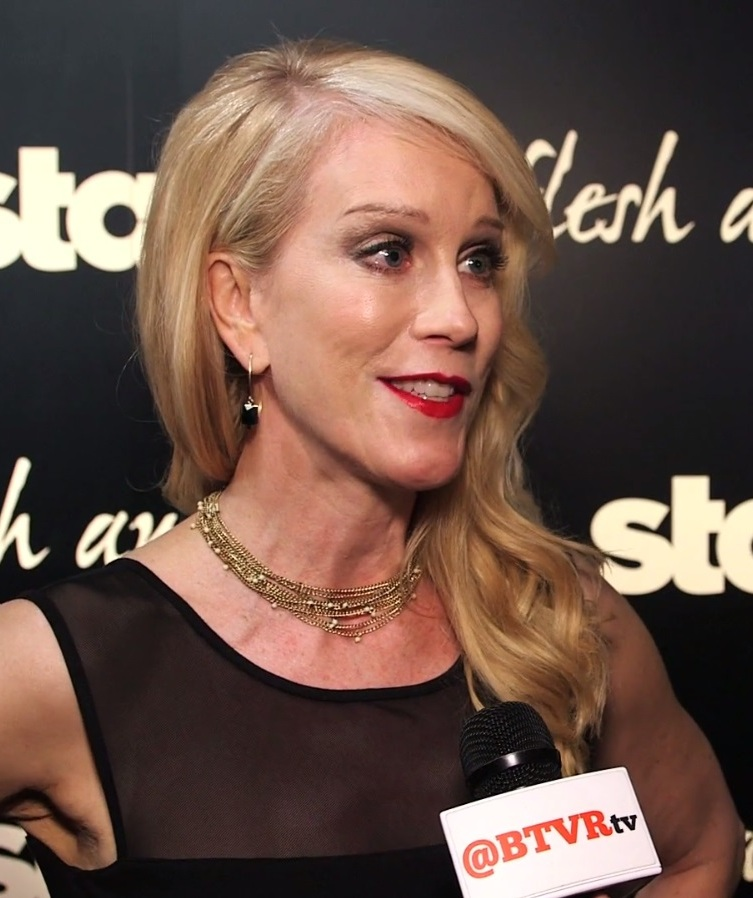 Moira Walley-Beckett, creator/executive producer of Starz's "Flesh and Bone", talks to Arthur Kade of Behind the Velvet Rope at the miniseries premiere.